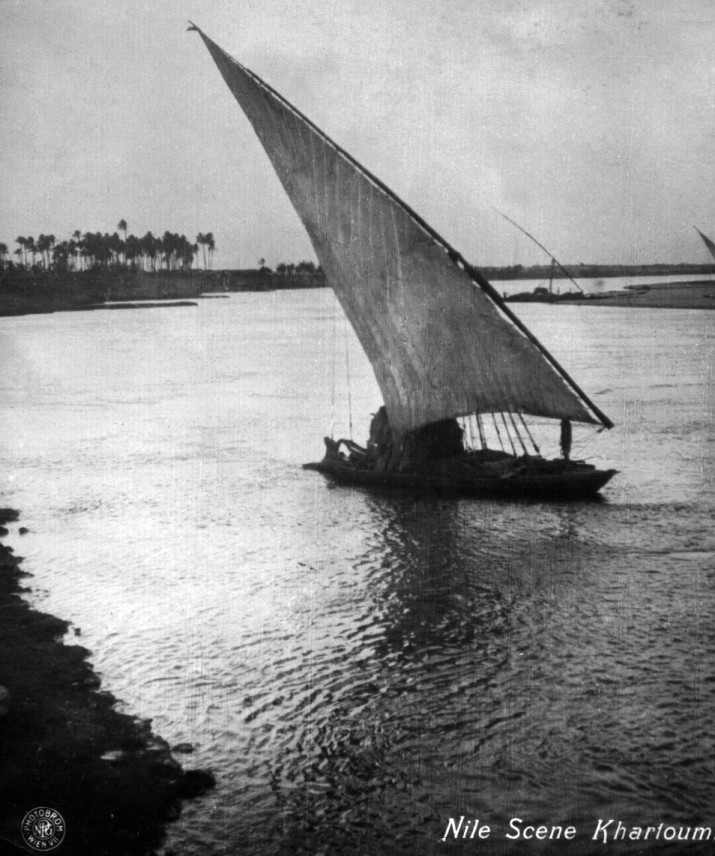 The Nile scene at Khartoum